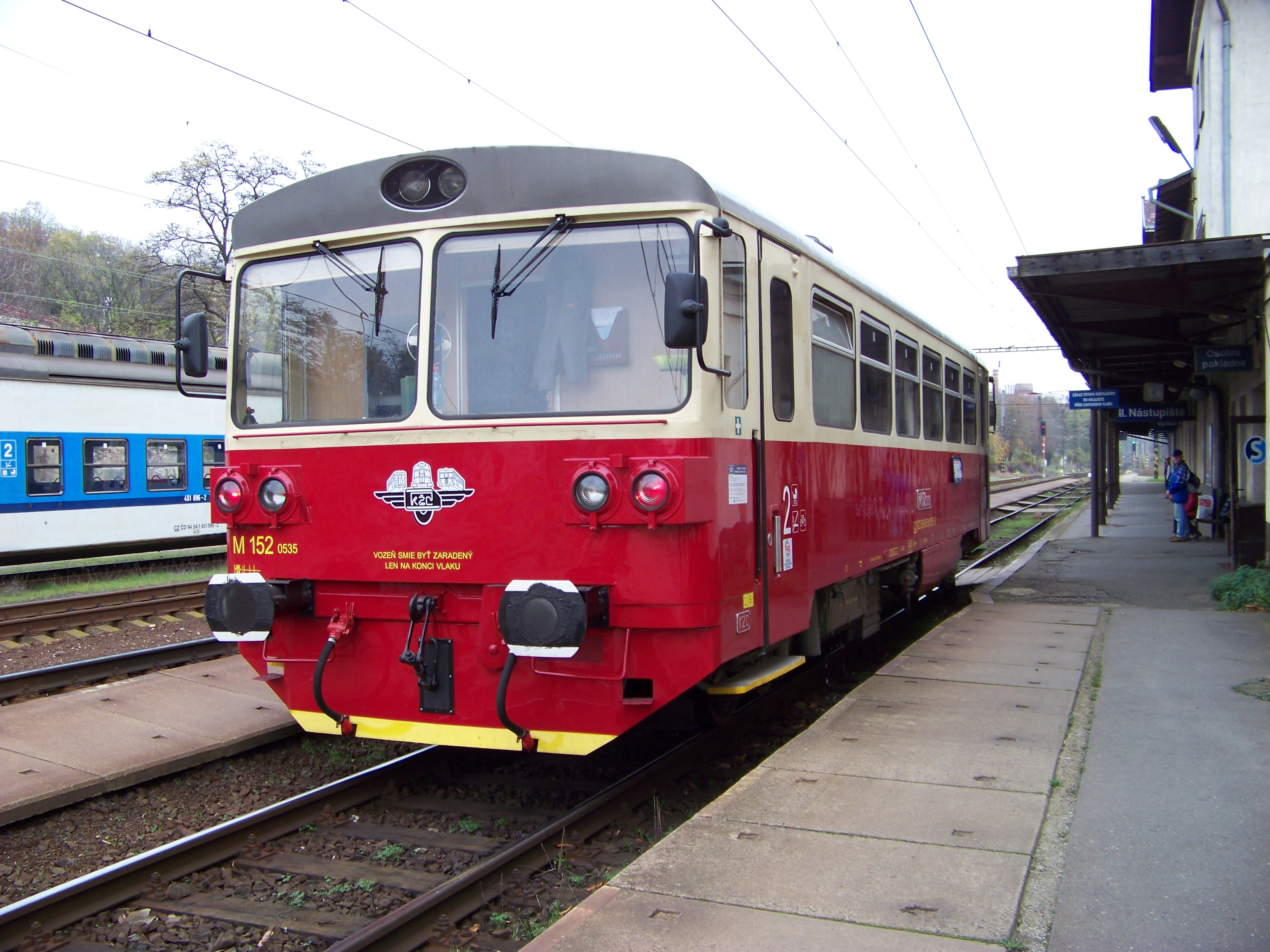 Prague-Vysočany, Czech Republic. Praha-Vysočany train station, a motor car of KŽC.